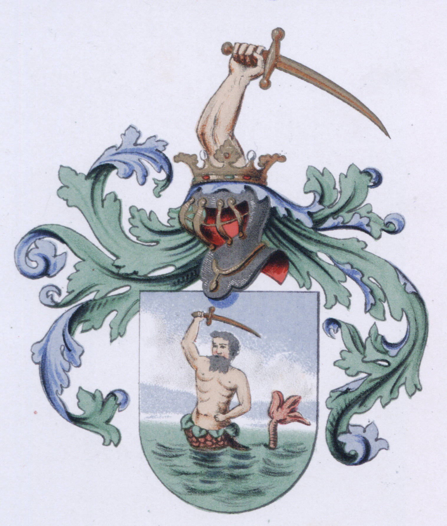 Family crest De Neree tot Babberich